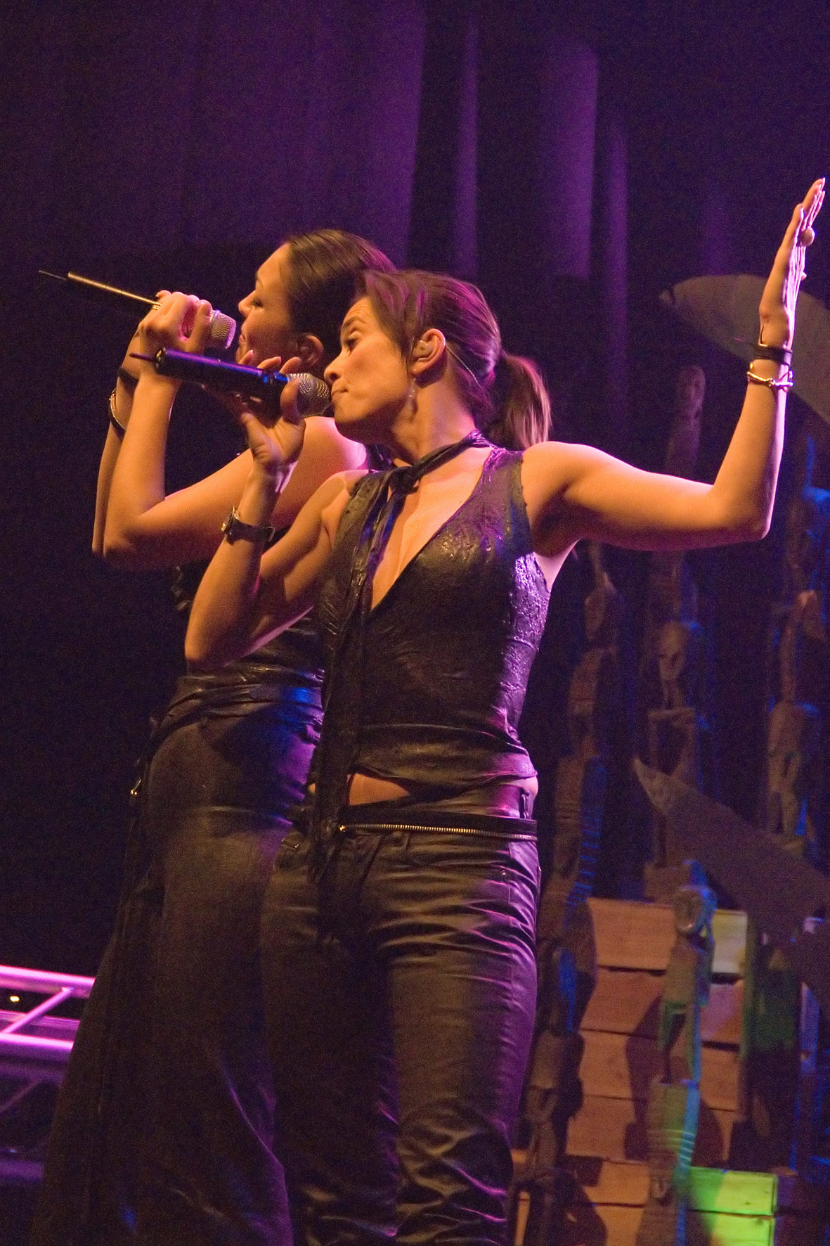 Dutch female duo Loïs Lane